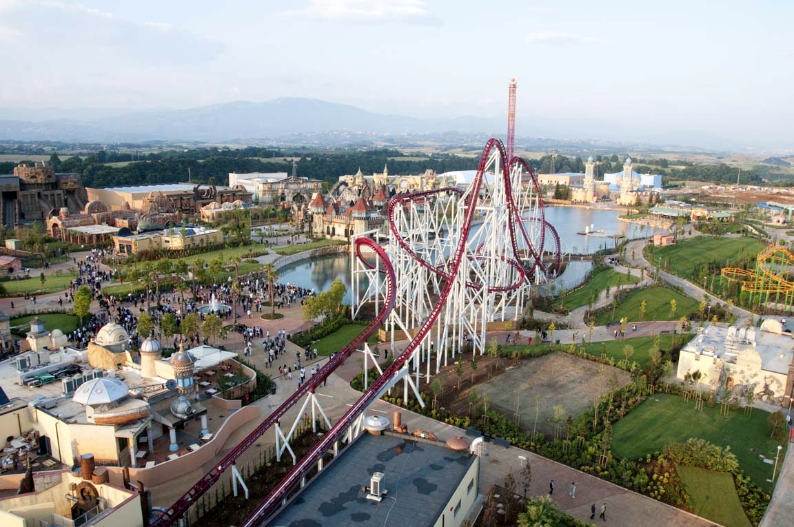 MagicLand dall'alto